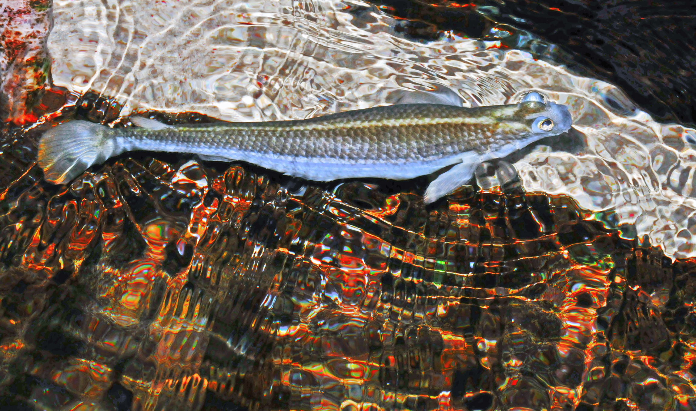 This Four-eyed fish (Anableps anableps) is swimming in streaming water over white and black sand. The streaming water shows colorfully reflection.